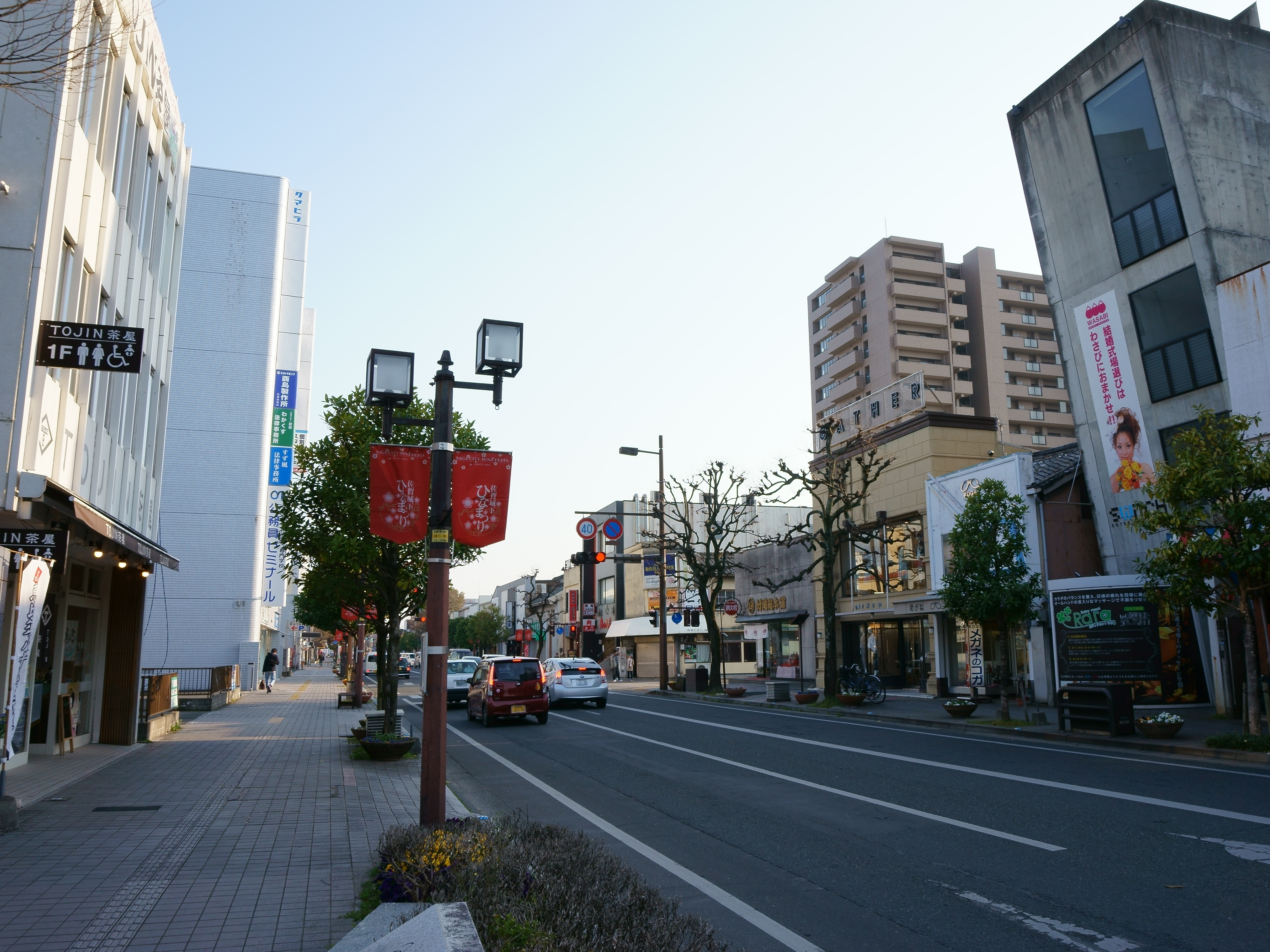 Tojinmachi Shopping Street in Saga, from cafe Tojinchaya to Saga Station.